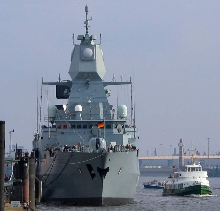 Hamburg (F 220), a Sachsen class frigate of the German Navy in Hamburg harbour.